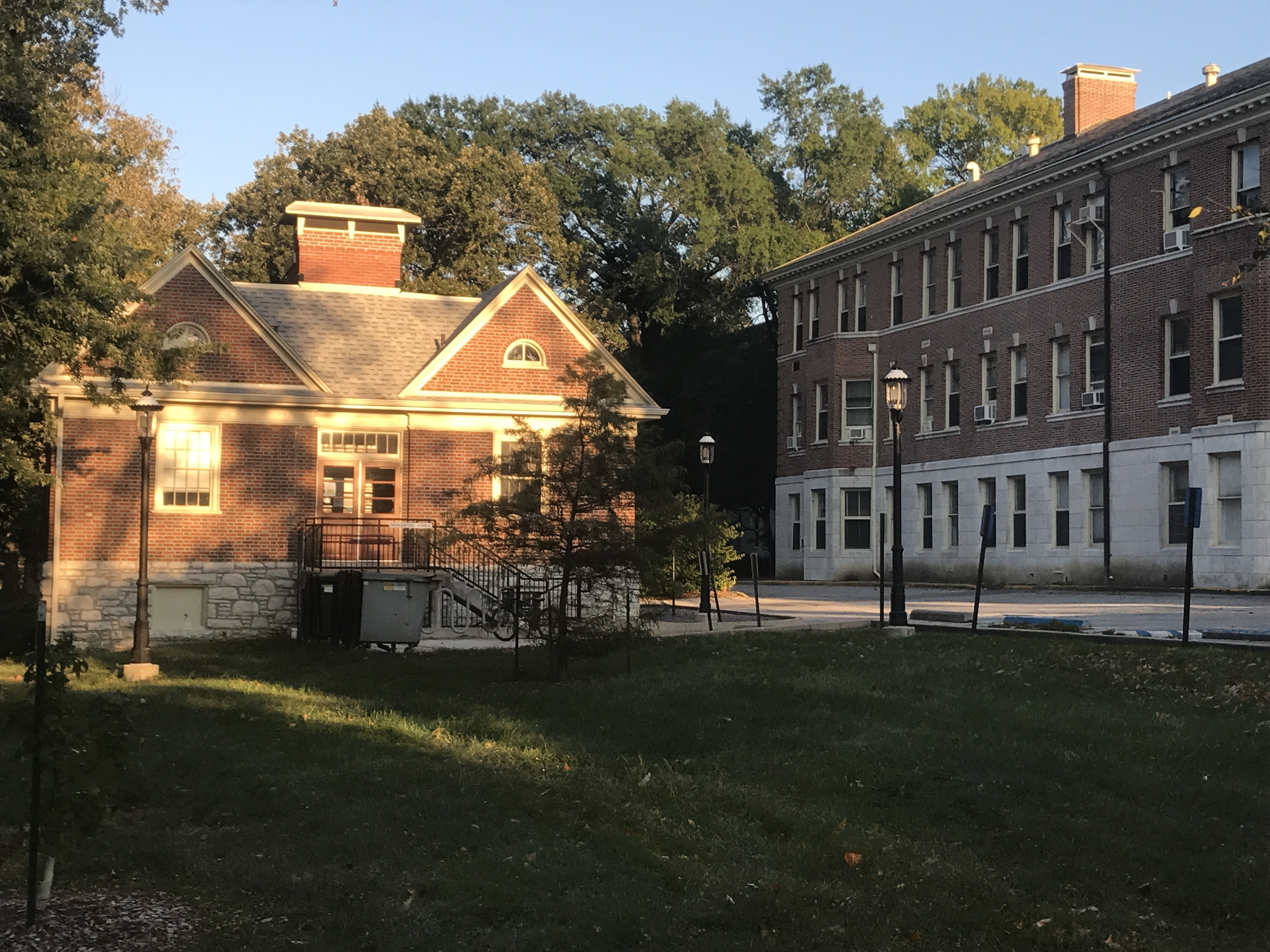 Psychology annex at the university of Missouri in peace parks